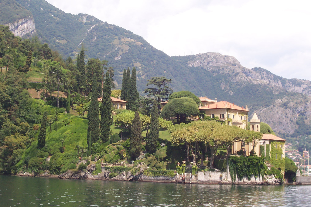 Villa_Balbianello - a villa on Como Lake, one of the locations for Star Wars Episode 2. Orginal description: The most beautiful Villa of the lake, built on a promontory with access only by boat. It is the palce where star war was played.